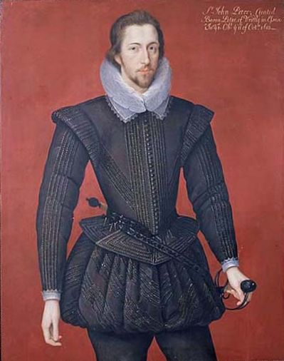 Portrait of William Petre, 2nd Baron Petre (1575-1637) (mislabeled on inscription as John Petre, 1st Baron Petre (1549-1613) Strong, 1969.